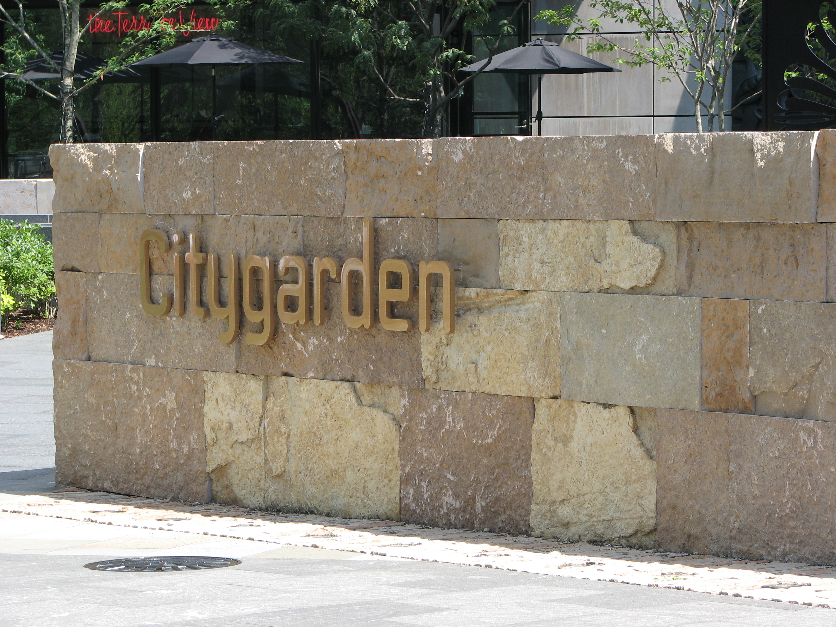 A metal sign for St. Louis, Missouri's Citygarden